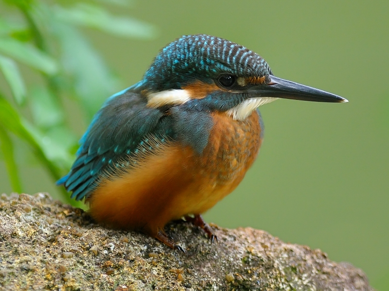 Common Kingfisher (also known as Eurasian Kingfisher).